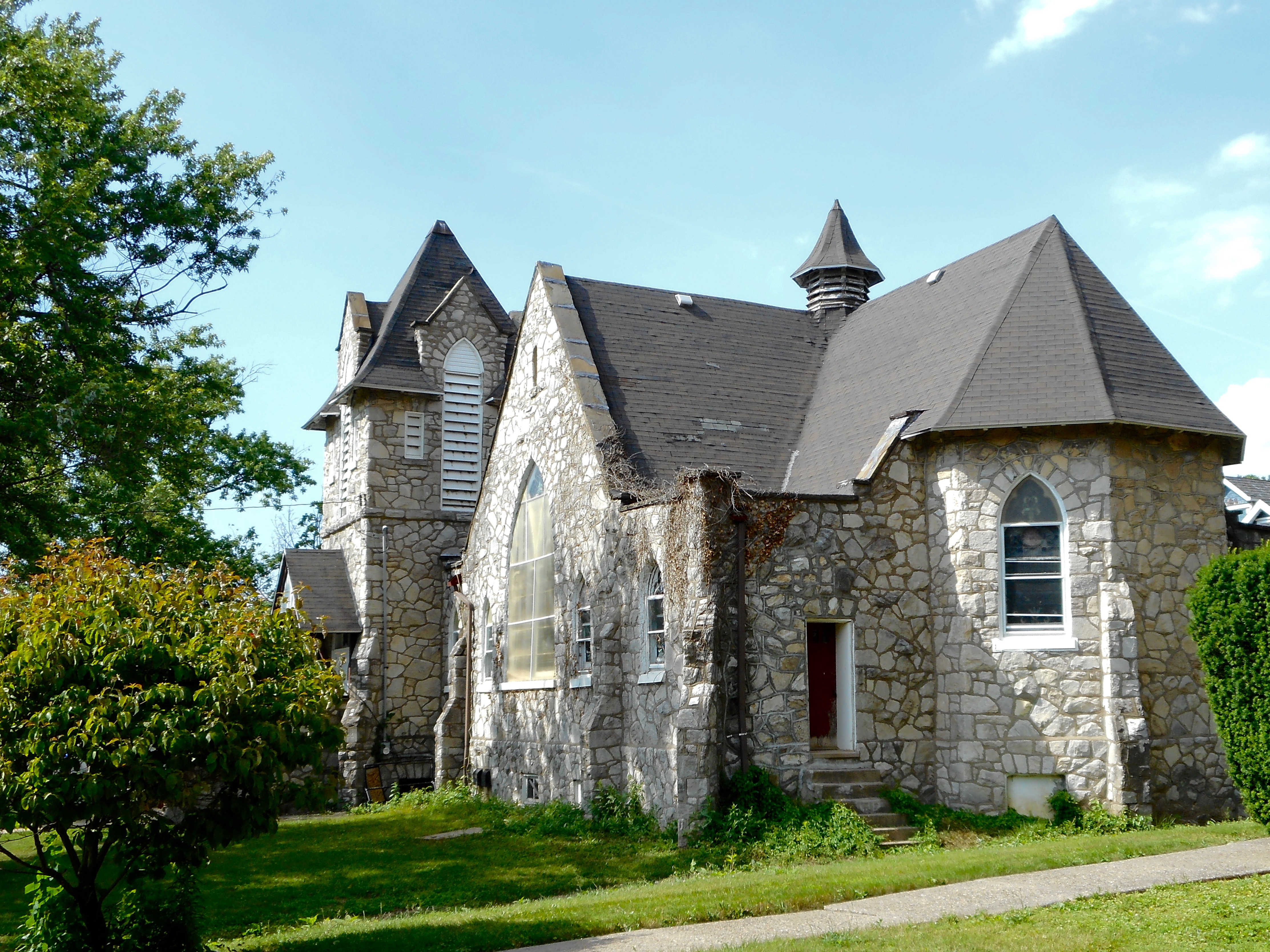 Possibly the old Holy Spirit Roman Catholic Church in Sharon Hill, Delaware County, Pennsylvania. The parish was founded in 1892, presumably this church was built about that time. It was replaced by a new building right next door in 1960. The parish was merged with St. George Parish in Glenolden, just 1.3 miles away in 2014. A viewer noted the the old Holy Spirit and the 1960 Holy Spirit Church were built on the same lot which would make the above wrong. She believes that this church was a Methodist church. The local library is across the street, so I have a place to check further, but it may take awhile. The old church has a sign in front saying "Bethel Gospel Tabernacle" but the building looks in bad shape and I'm unsure how old the sign is.